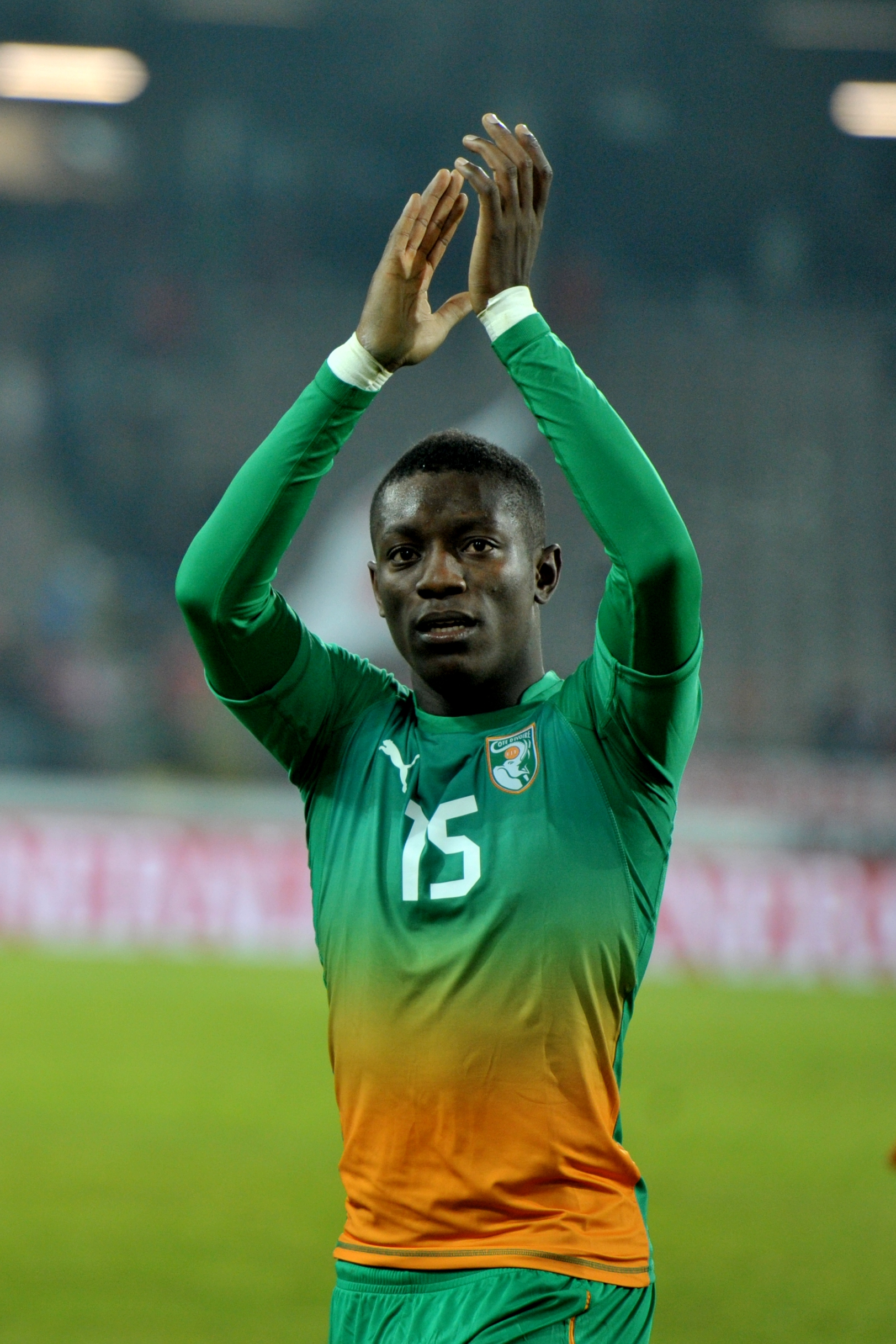 ÖFB freundschaftliches Länderspiel - Österreich vs Elfenbeinküste am 14. November 2012 The making of this work was supported by Wikimedia Austria. For other files made with the support of Wikimedia Austria, please see the category Supported by Wikimedia Österreich. Elfenbeinküste Nr. 15: Max Gradel